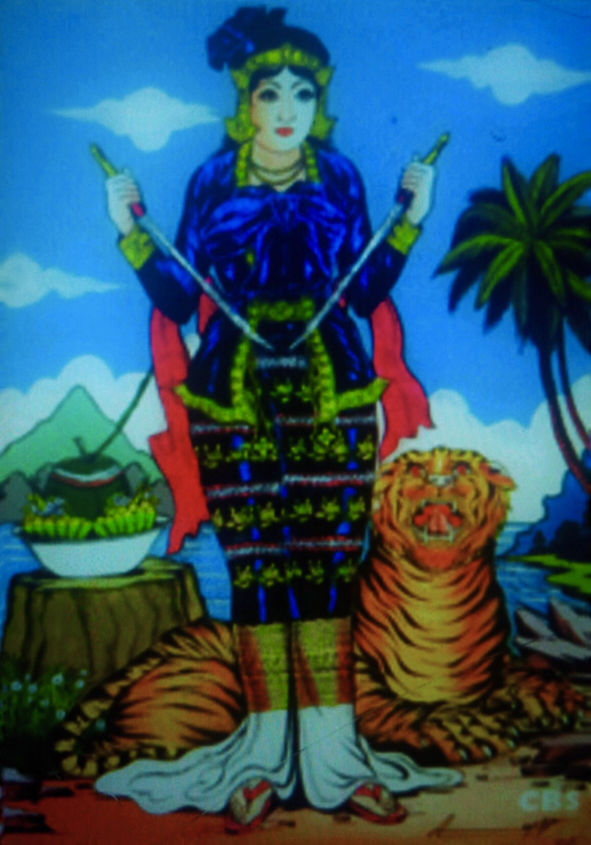 Yay Yin Kadaw